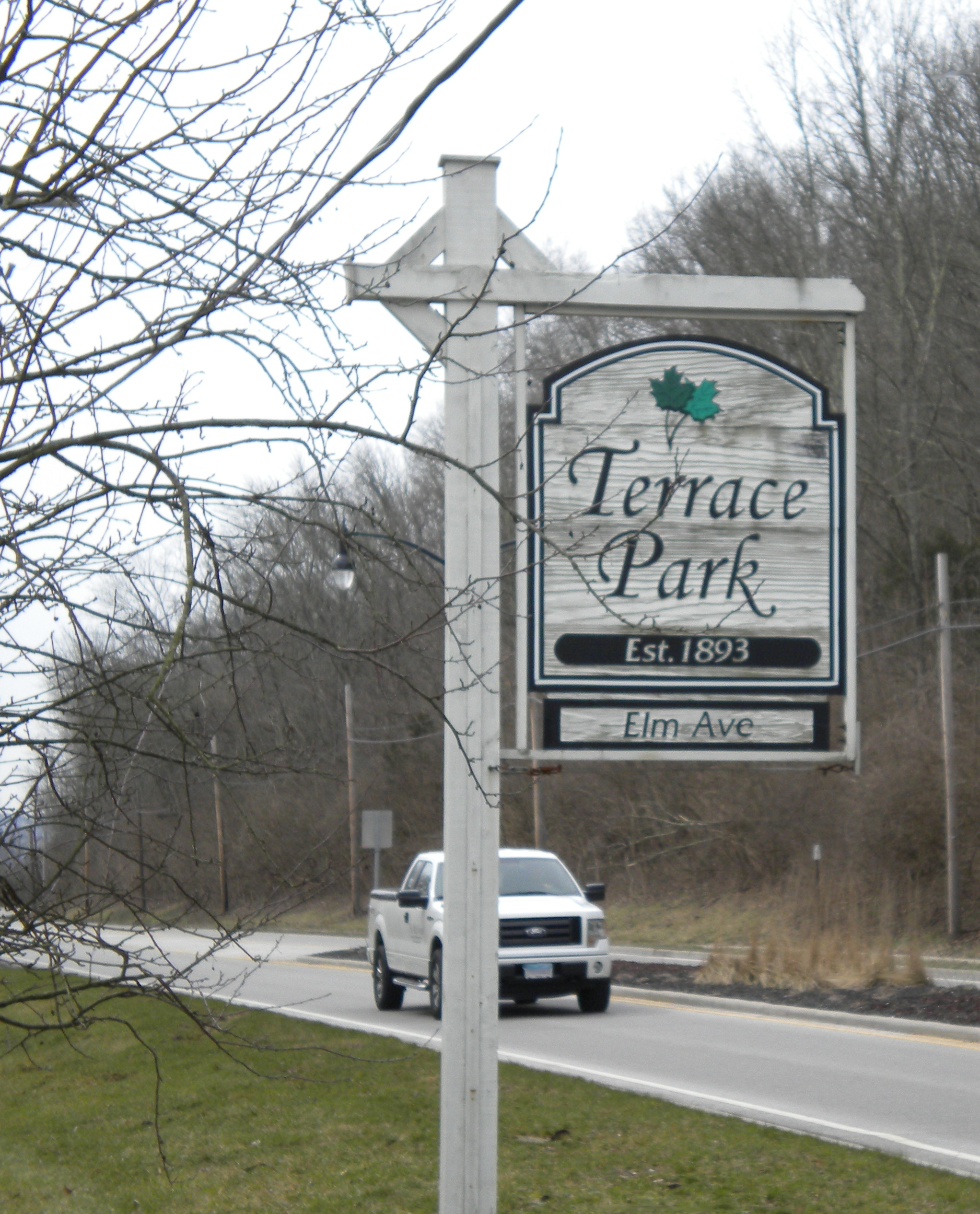 Terrace Park, Ohio sign